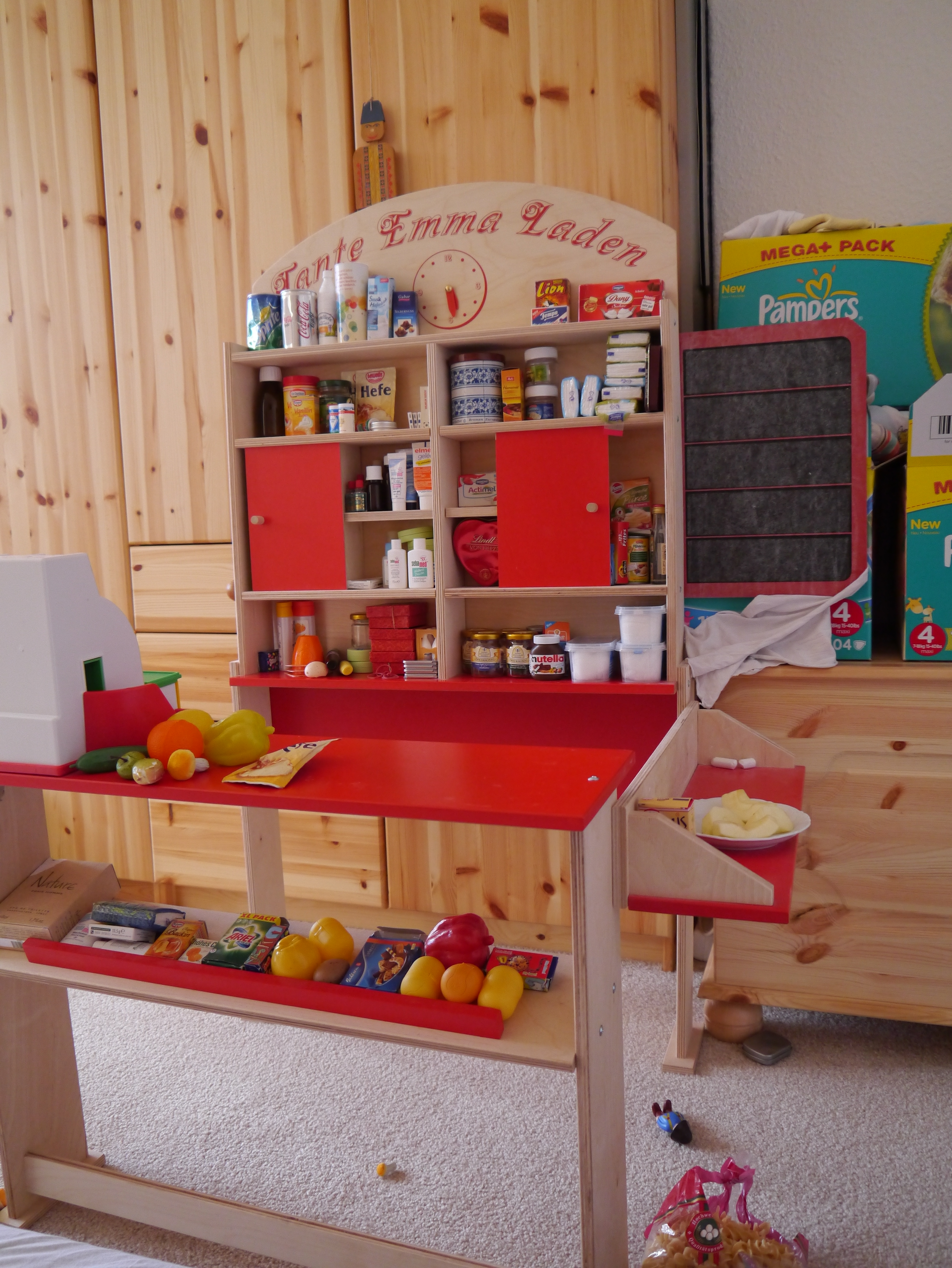 Children's toys: Merchant shop "Aunt Emma" 2014